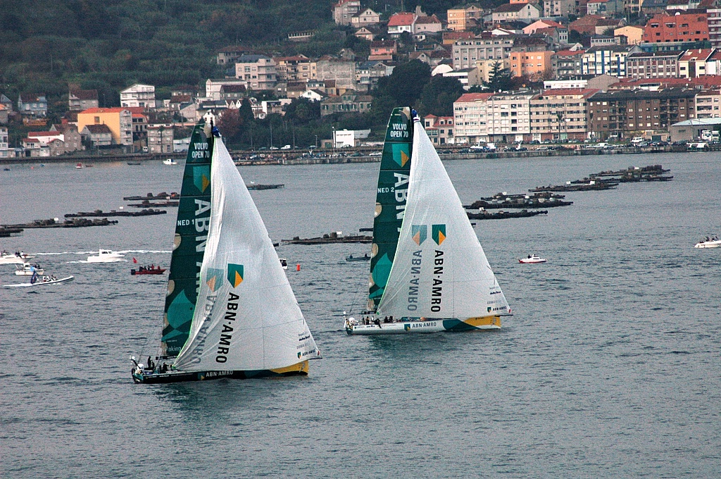 VOR2005 start at Vigo (Spain)